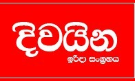 Logo of Divaina - the Sri Lanka based daily